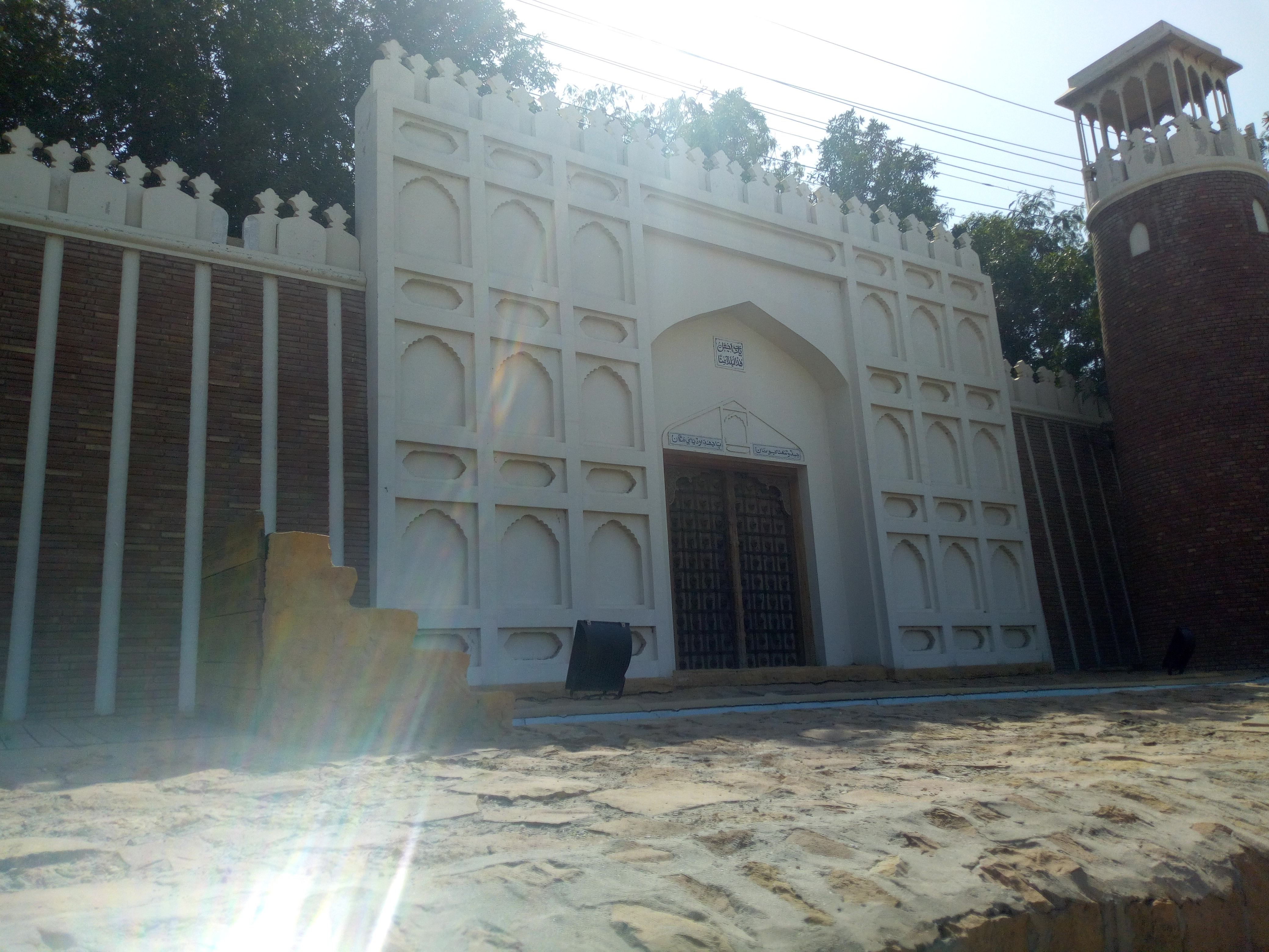 Pako Qilo (Hyderabad Fort, Sindh) Monument This photo has been taken in the country: Pakistan